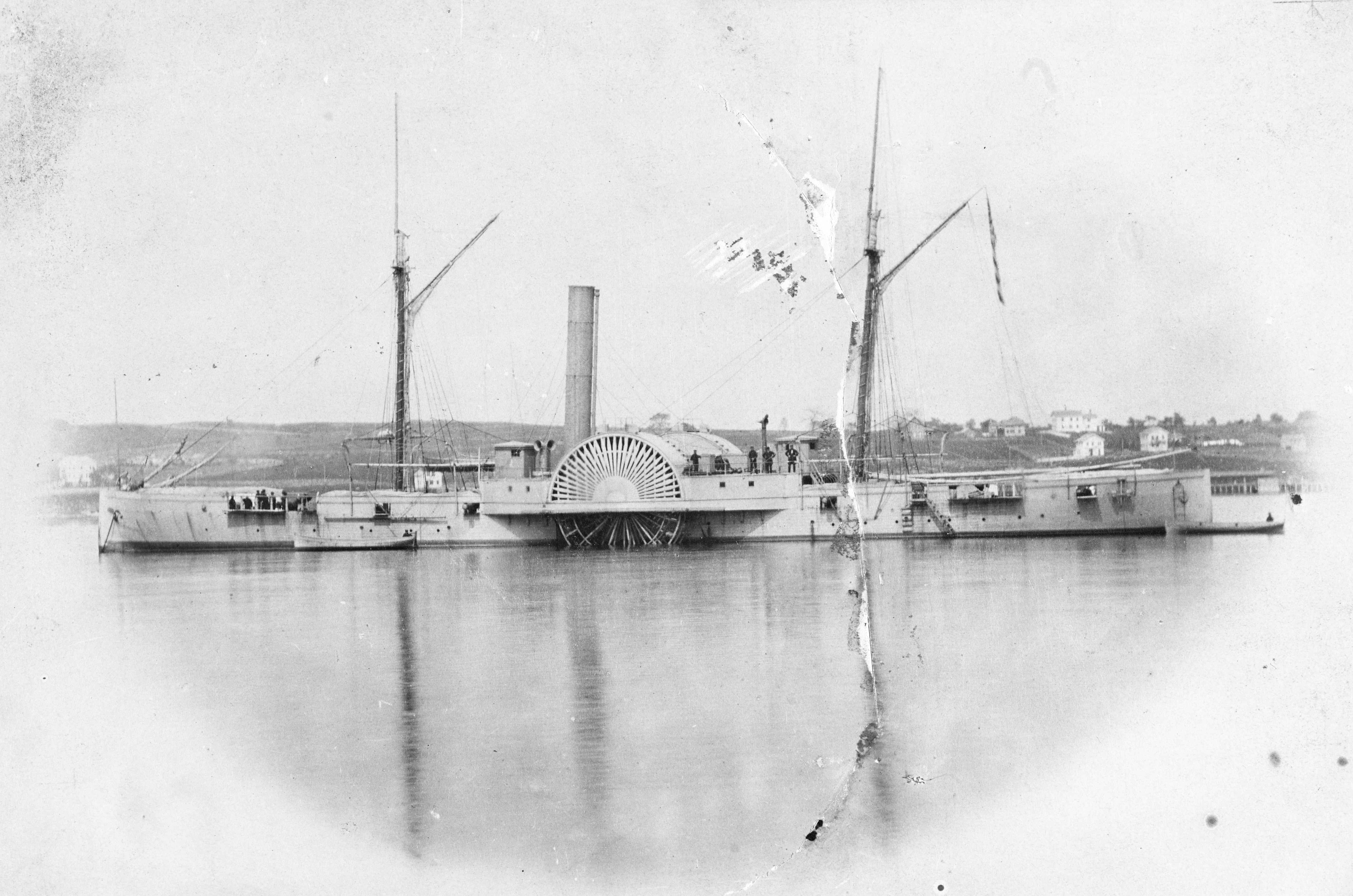 USS Winooski, a Sassacus-class gunboat built for service in the American Civil War but commissioned too late for wartime service.